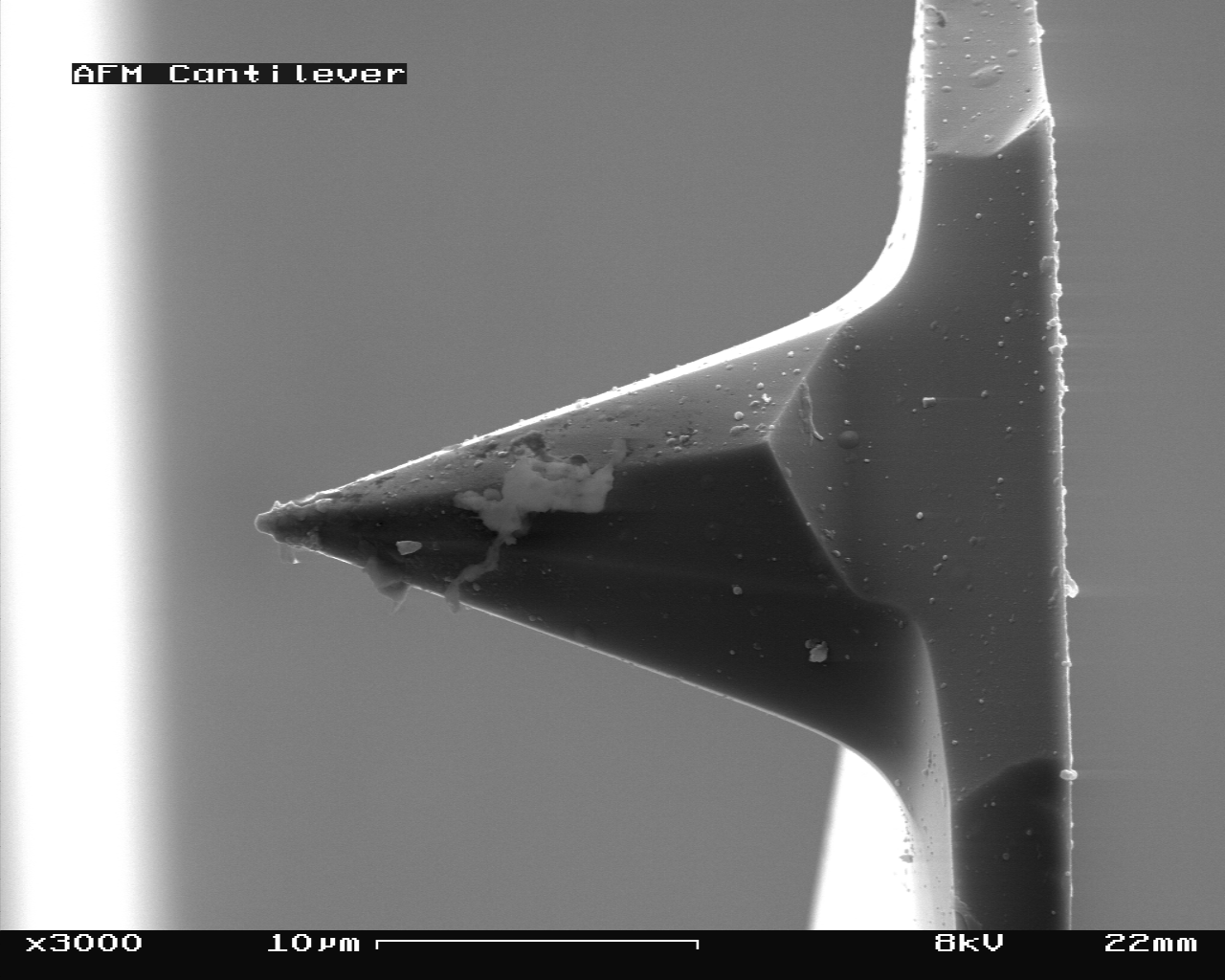 AFM (used) cantilever in Scanning Electron Microscope, magnification 3000x